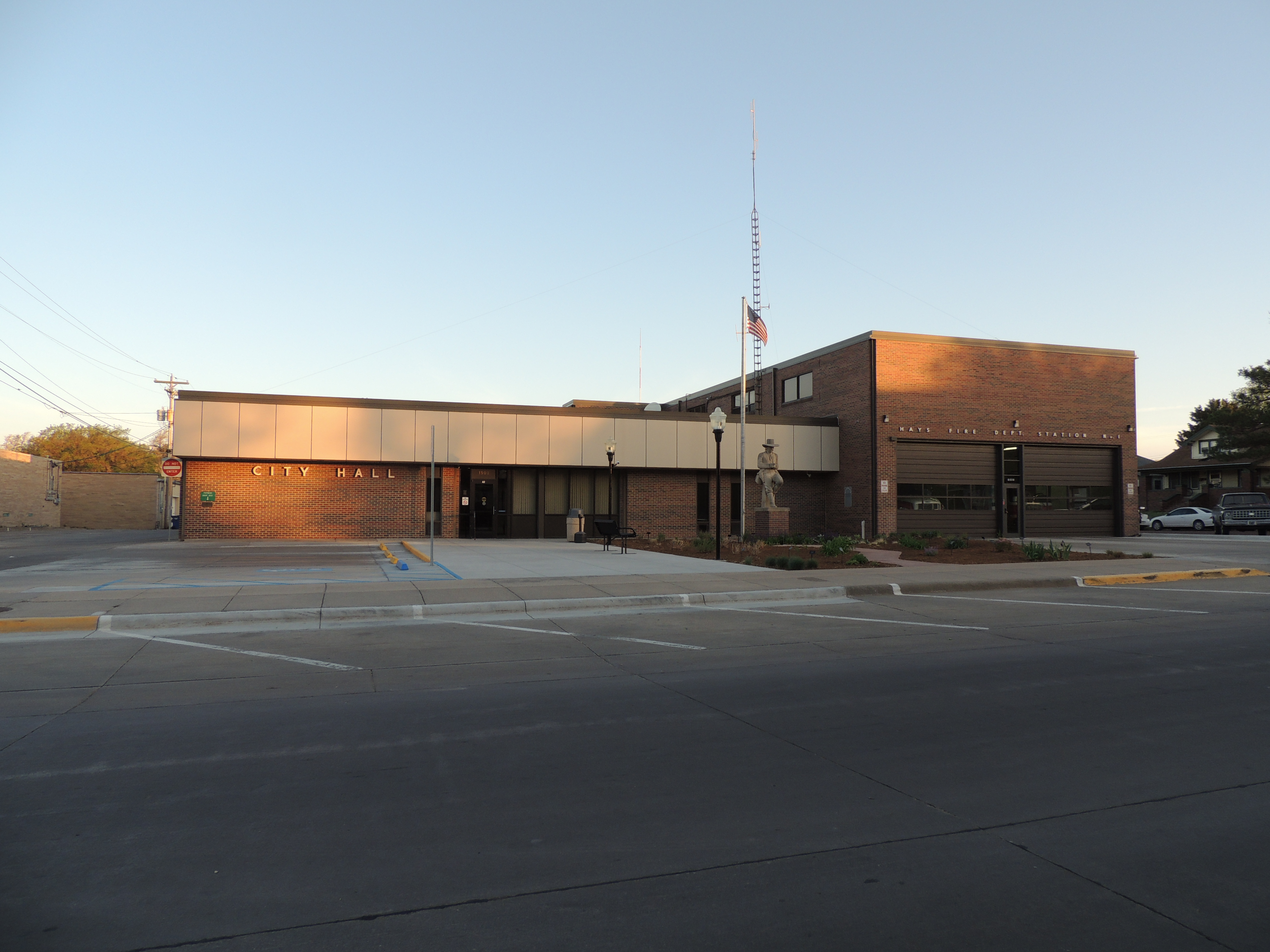 City Hall and Fire Station in Hays Kansas